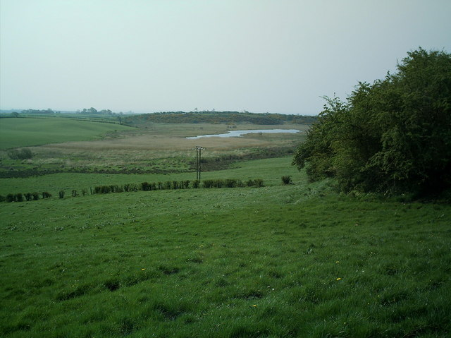 Ashgrove Loch. This Loch has probably got the remains of 6 Prehistoric Crannogs. One of these in particular has been described as peculiar if not unique in that it was constructed solely with stone without the intervention of wooden piles or beams and being nearly circular with a 43 ft outer diameter ( Source:Prehistoric man in Ayrshire John Smith 1895 ).